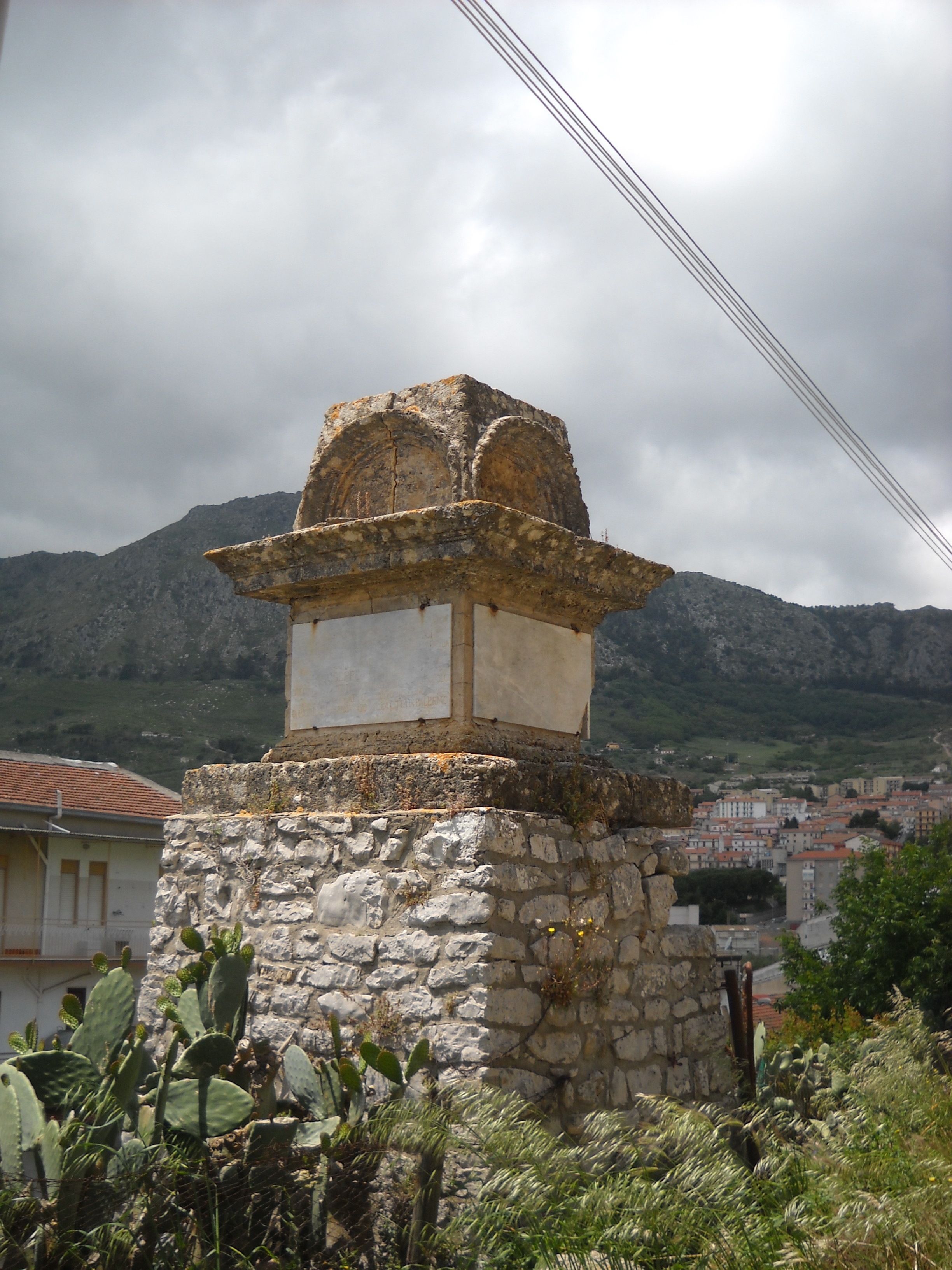 Stone memorial of Garibaldi in Madonna dell'Udienza in Piana degli Albanesi (PA), Sicily, Italy.